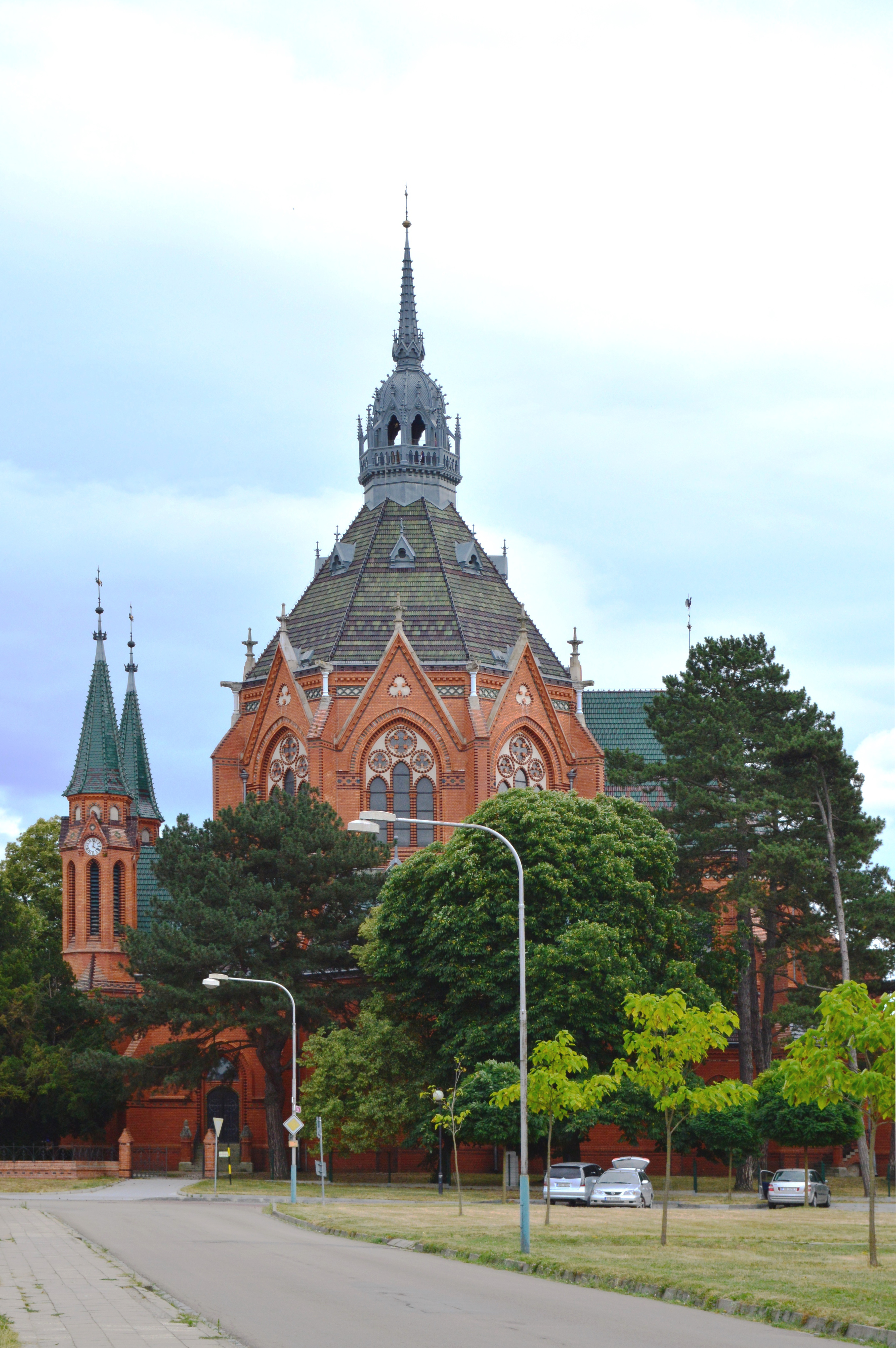 Břeclav is a town in the South Moravian Region of the Czech Republic, approximately 55 km southeast of Brno. It is located at the border with Lower Austria on the Dyje River. The Scotch Mist Gallery contains many photographs of historic buildings, monuments and memorials of Poland and beyond.